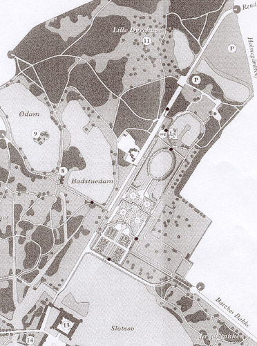 The garden of Frederiksborg Castle in Hillerød, Denmark viewed on old map.